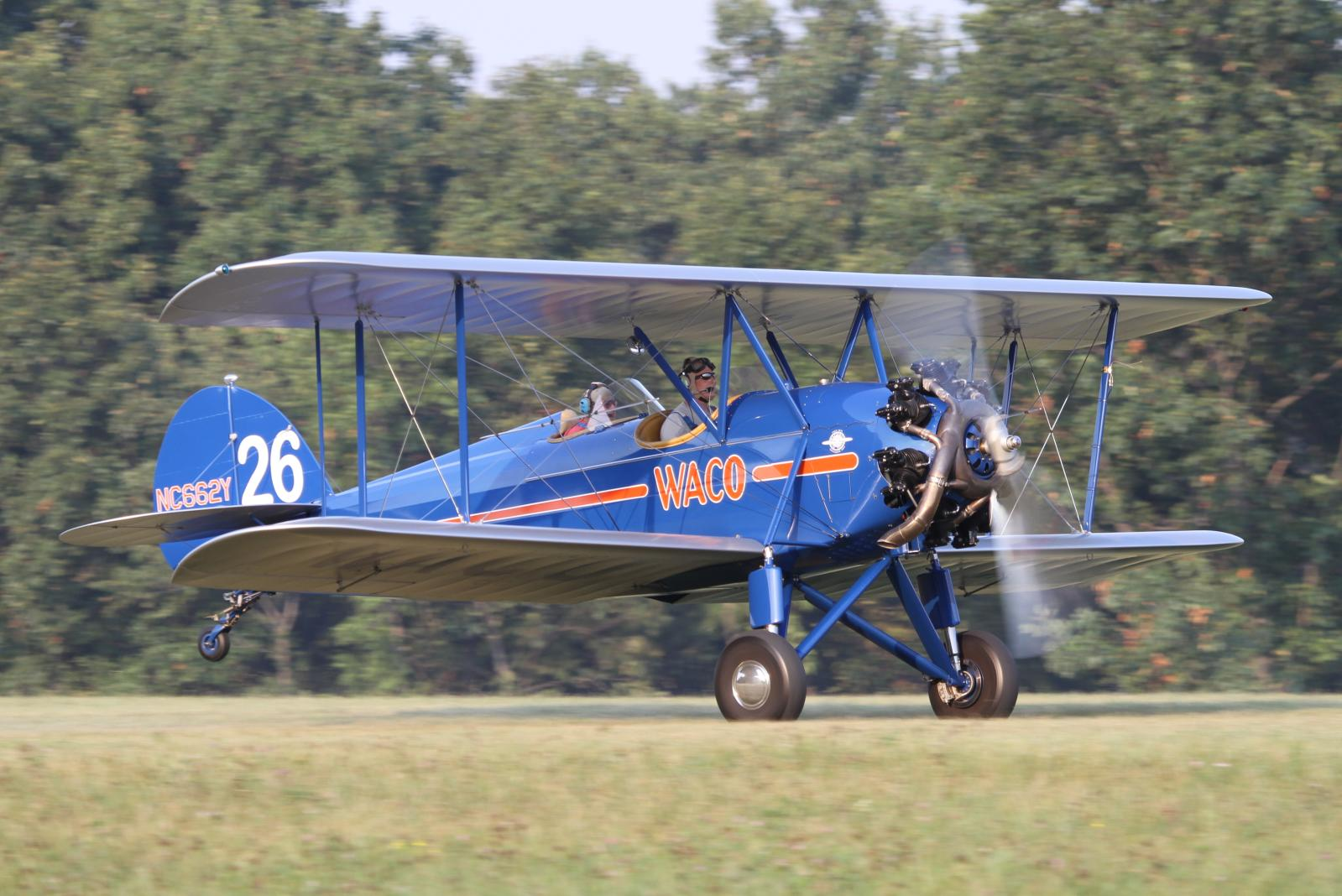 Waco ASO (NC662Y)